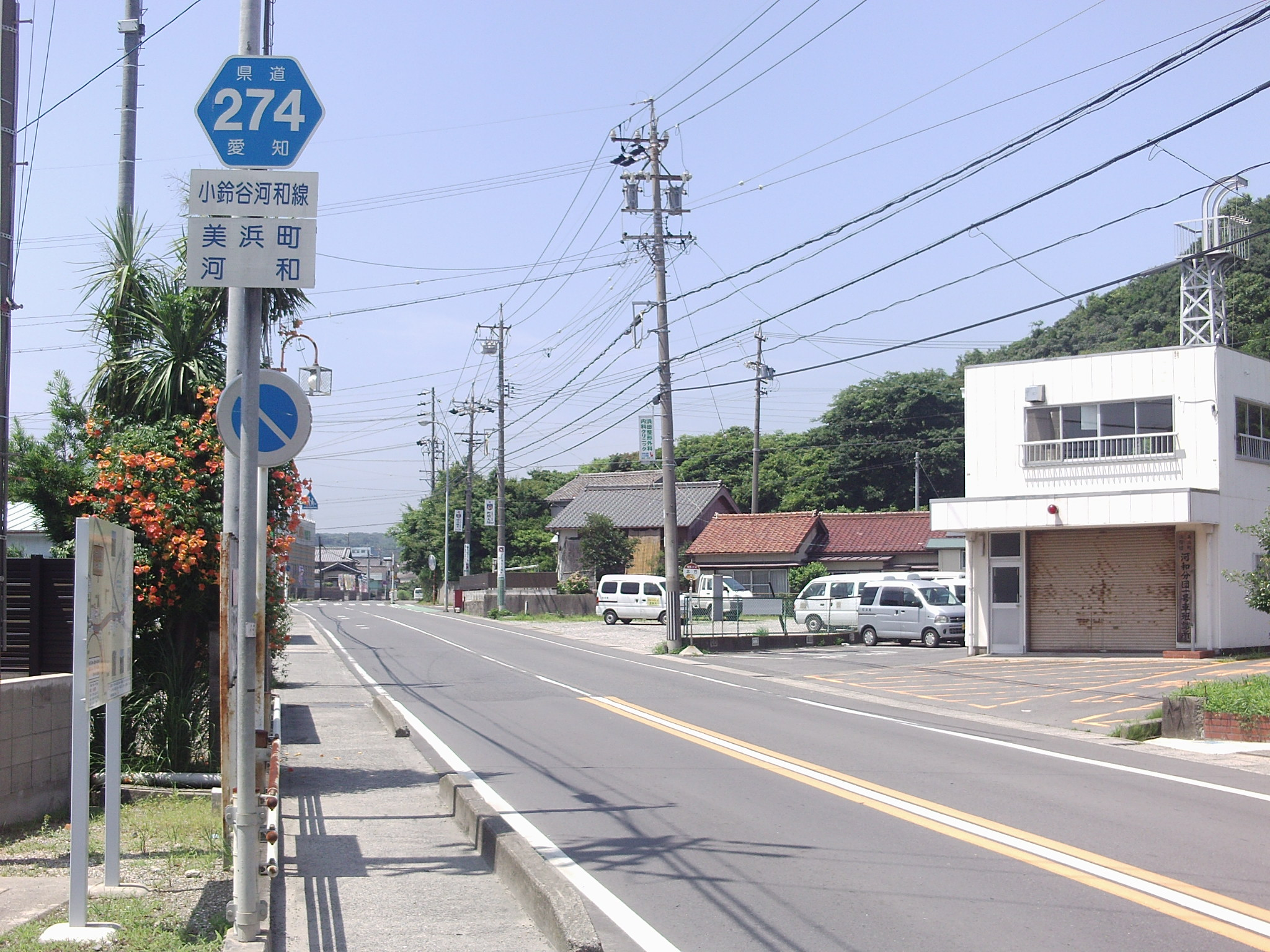 Aichi prefectural road No.274 in Kowa, Mihama-cho, Chita-gun, Aichi.